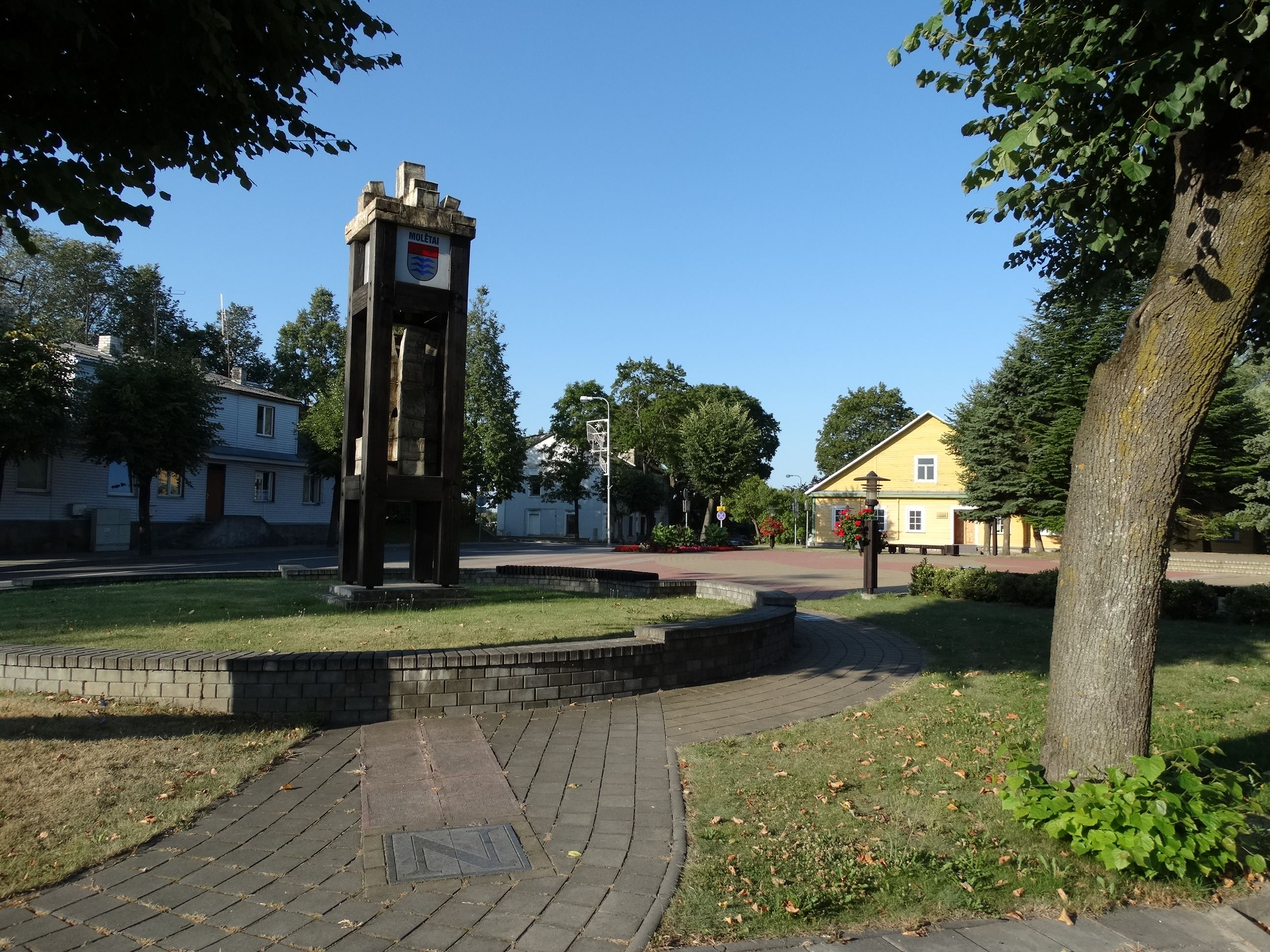 Jaunimo Square, Molėtai, Lithuania